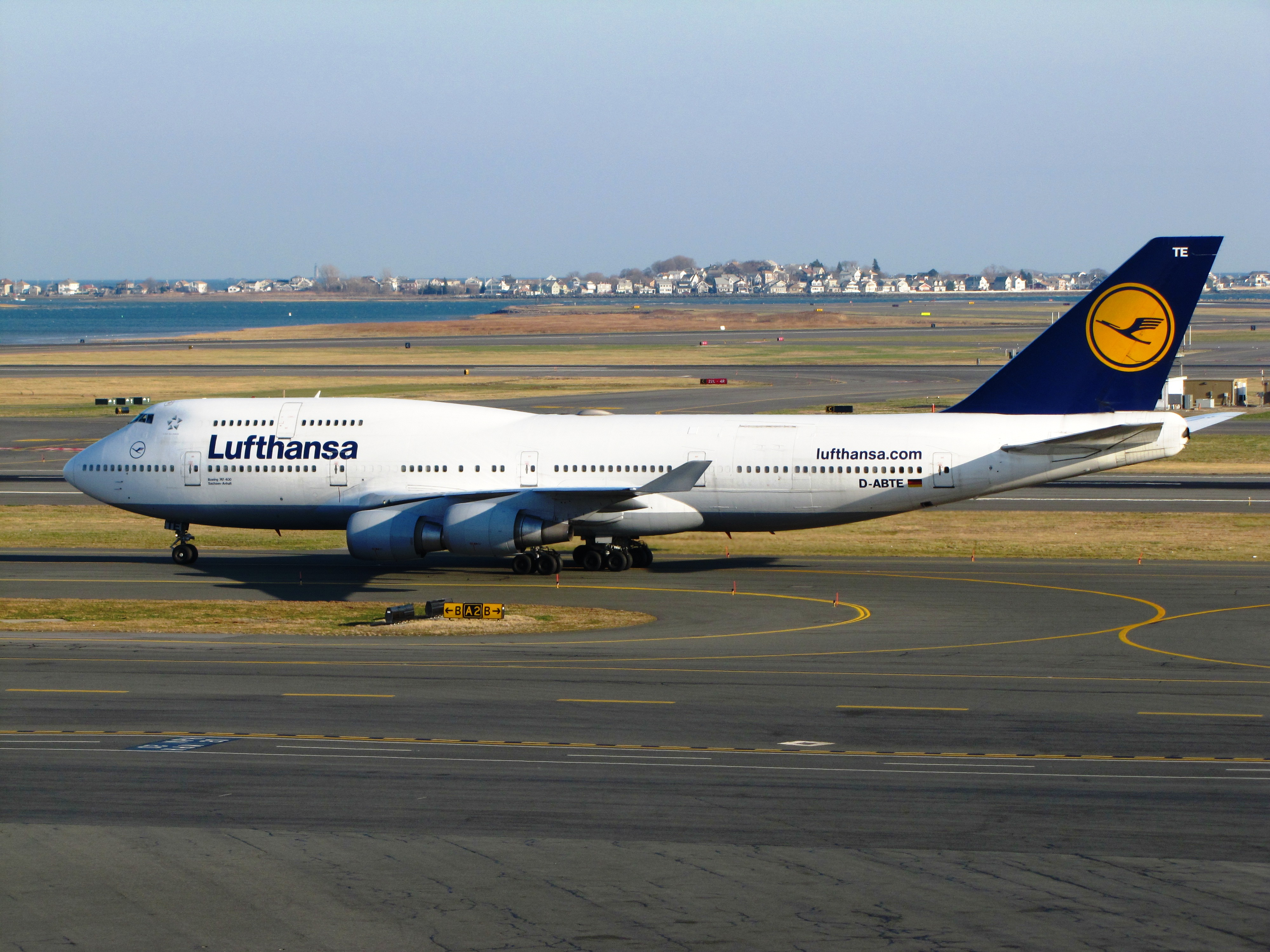 A 747-400 of Lufthansa